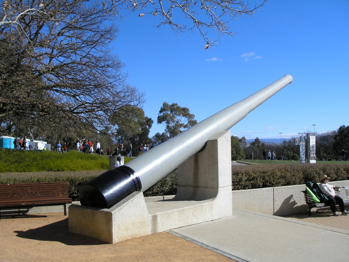 A 8 inch gun from HMAS Australia on display in the grounds of the Australian War Memorial in Canberra. Photo taken 19 August 2006.